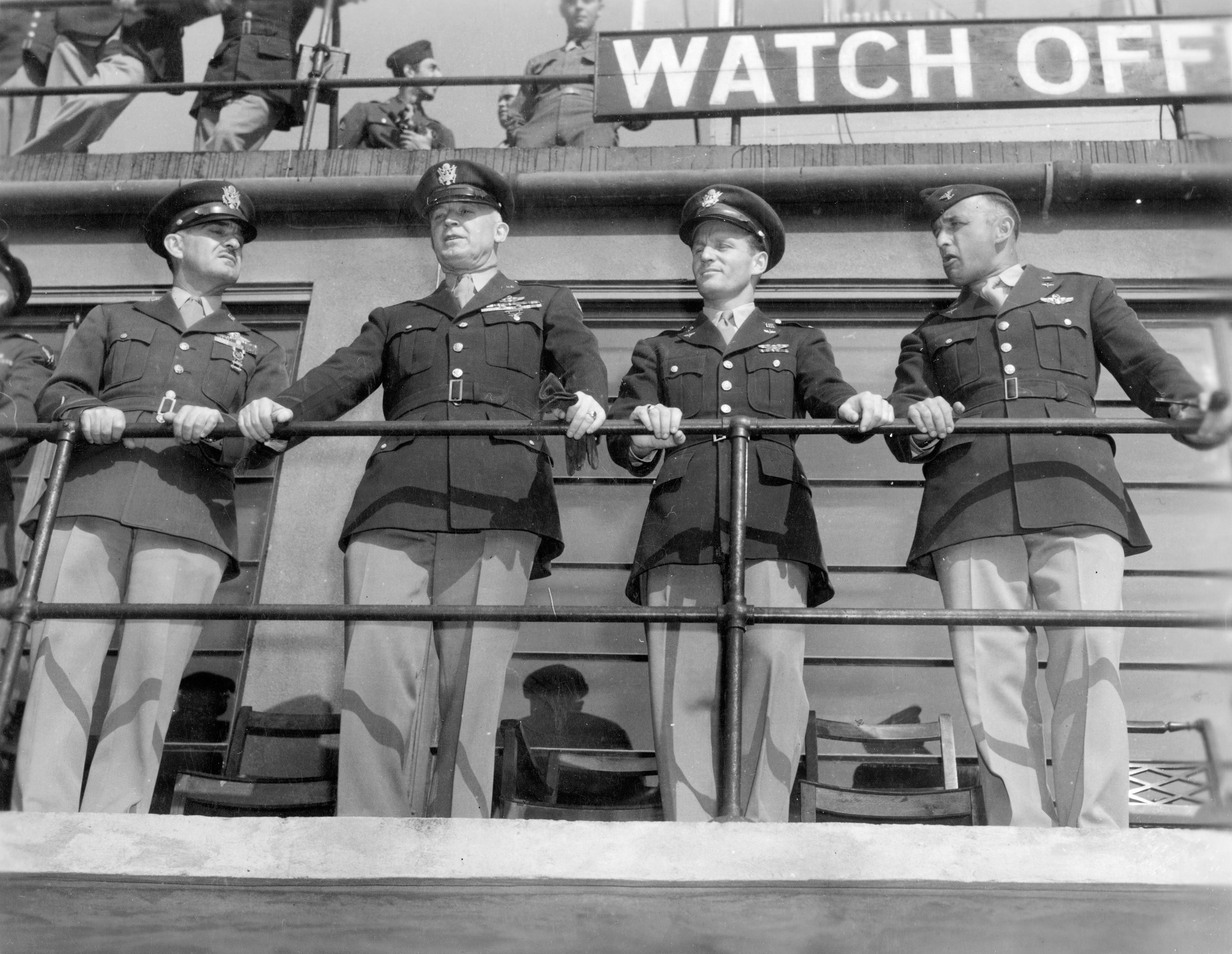 Senior USAAF personnel including Colonel Stone and General H Arnold on the control tower at Duxford during a visit to the 78th Fighter Group, 1943 Handwritten caption on reverse: 'Brass at S.M. 2nd from right = Col. Stone, 78th C.O. 3rd from right = Gen. H. Arnold. 1943.